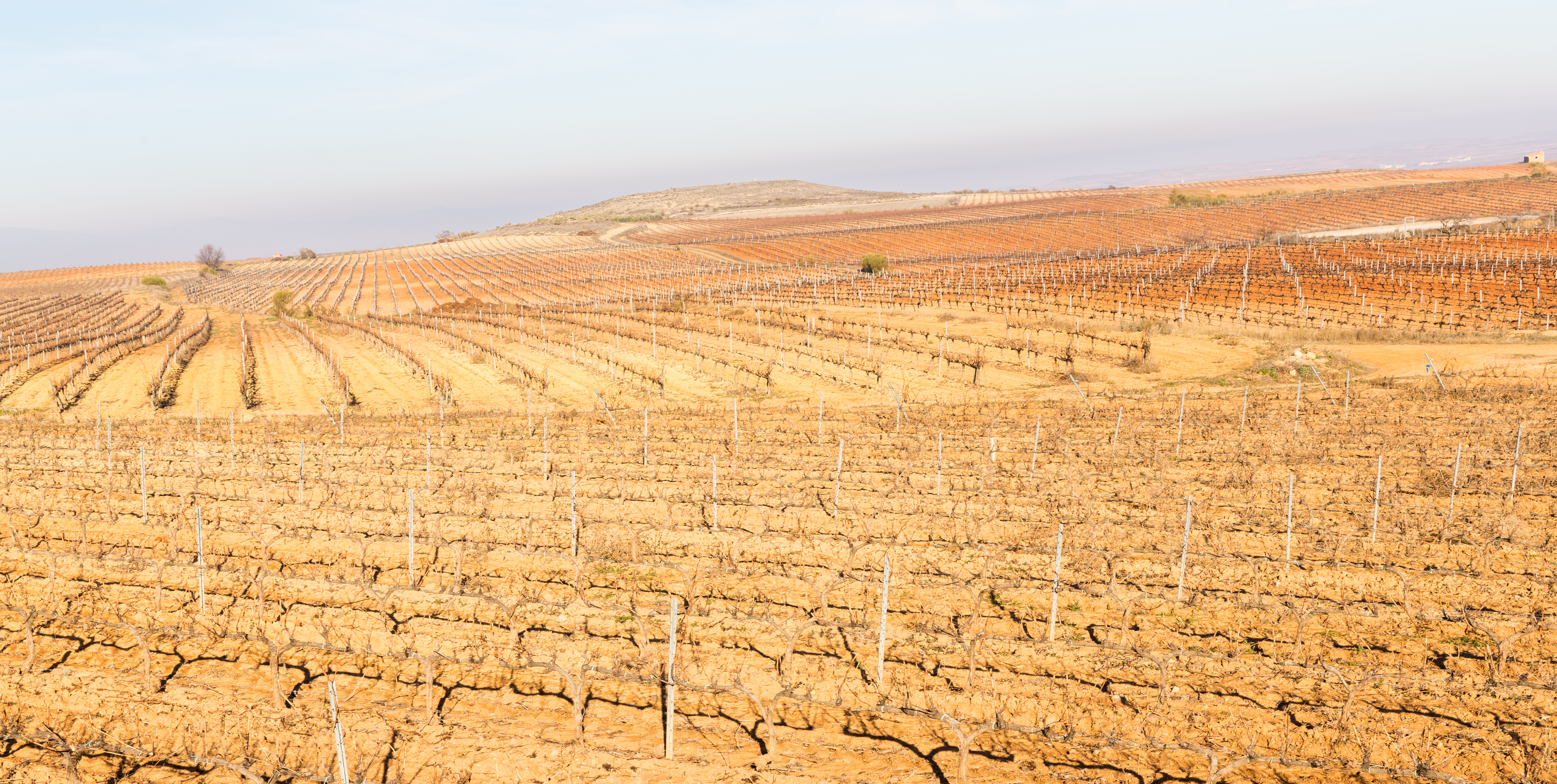 Vineyards in Cariñena, Zaragoza, Spain